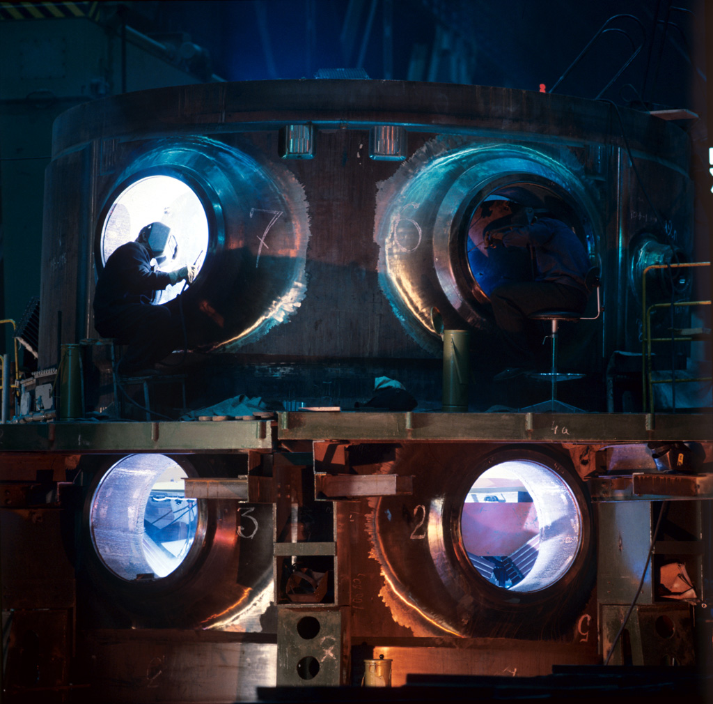 “Treatment of interior part of reactor frame”. Atommash Volga-Don Association of Enterprises for Nuclear Power Engineering and Industry. Treatment of the interior part of a reactor frame.